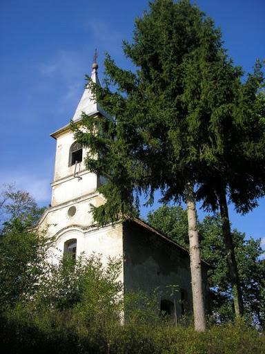 Church in Croatia